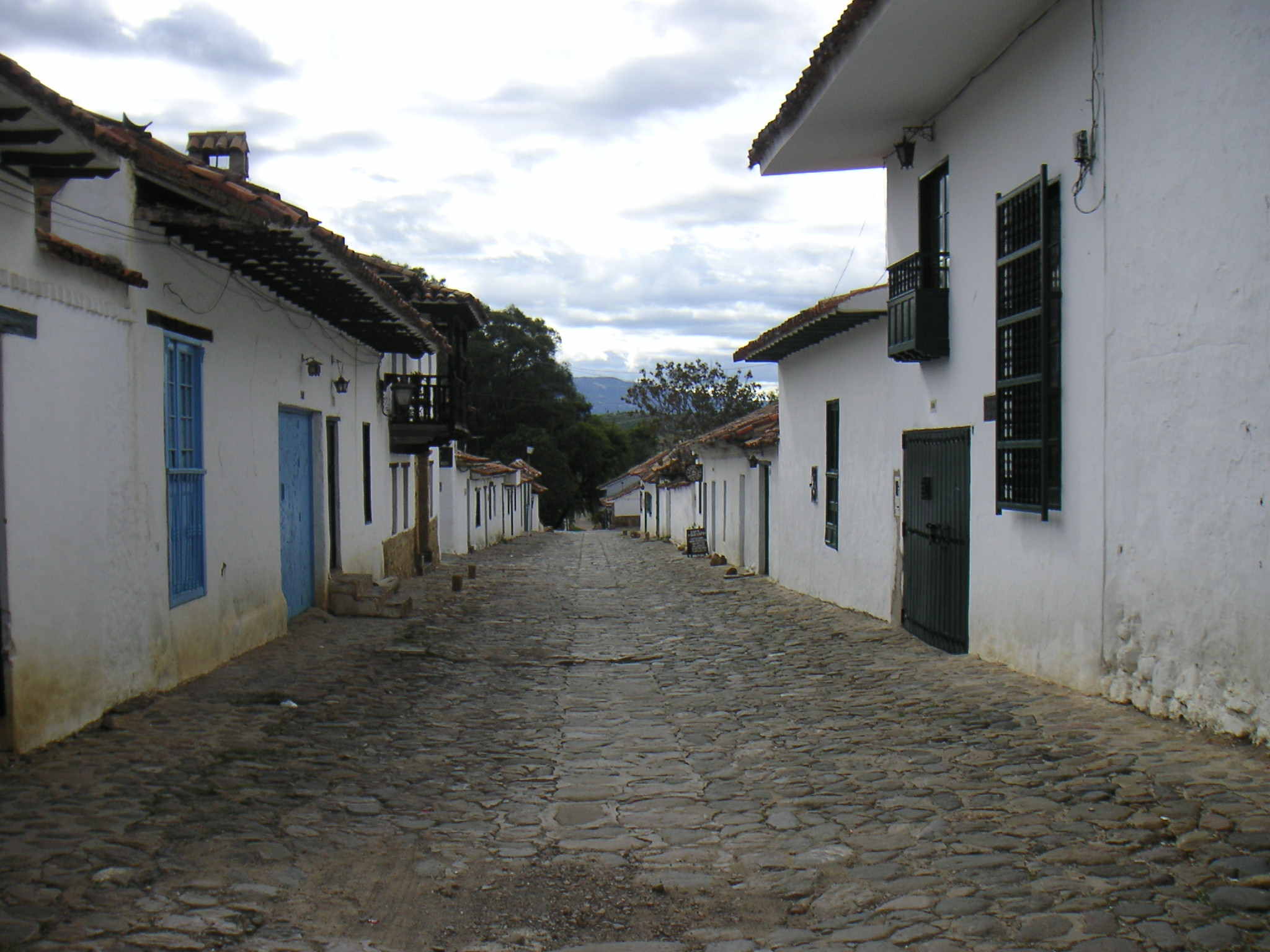 Description: Street of Villa de Leyva, Colombia Source: Louise Wolff (darina), June 2005